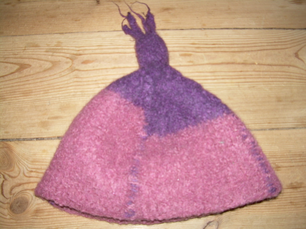 Felted hat